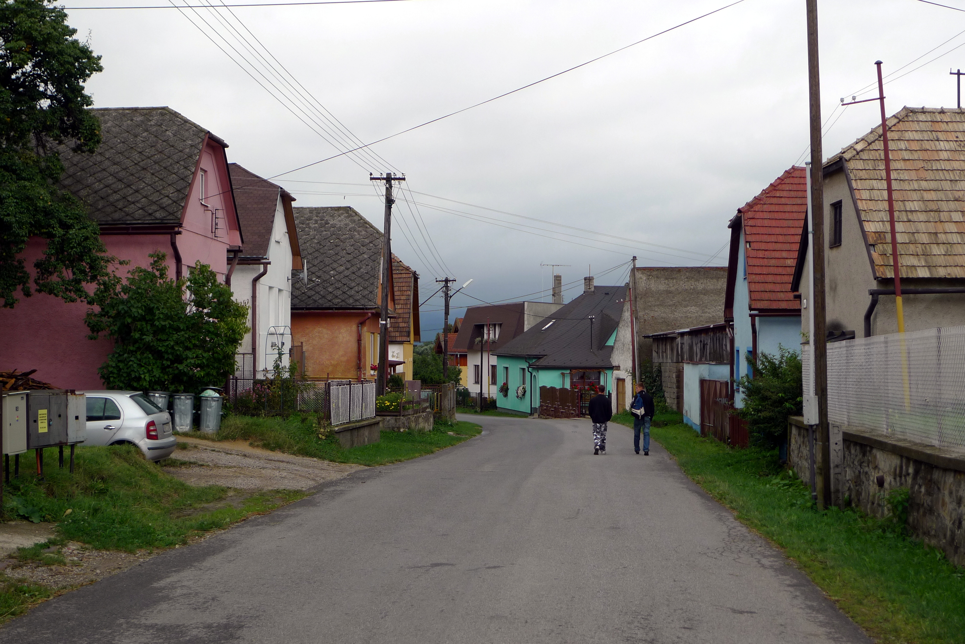 Vojňany - main street in this Slovak village Česky: Vojňany - hlavní ulice v této slovenské vesnici